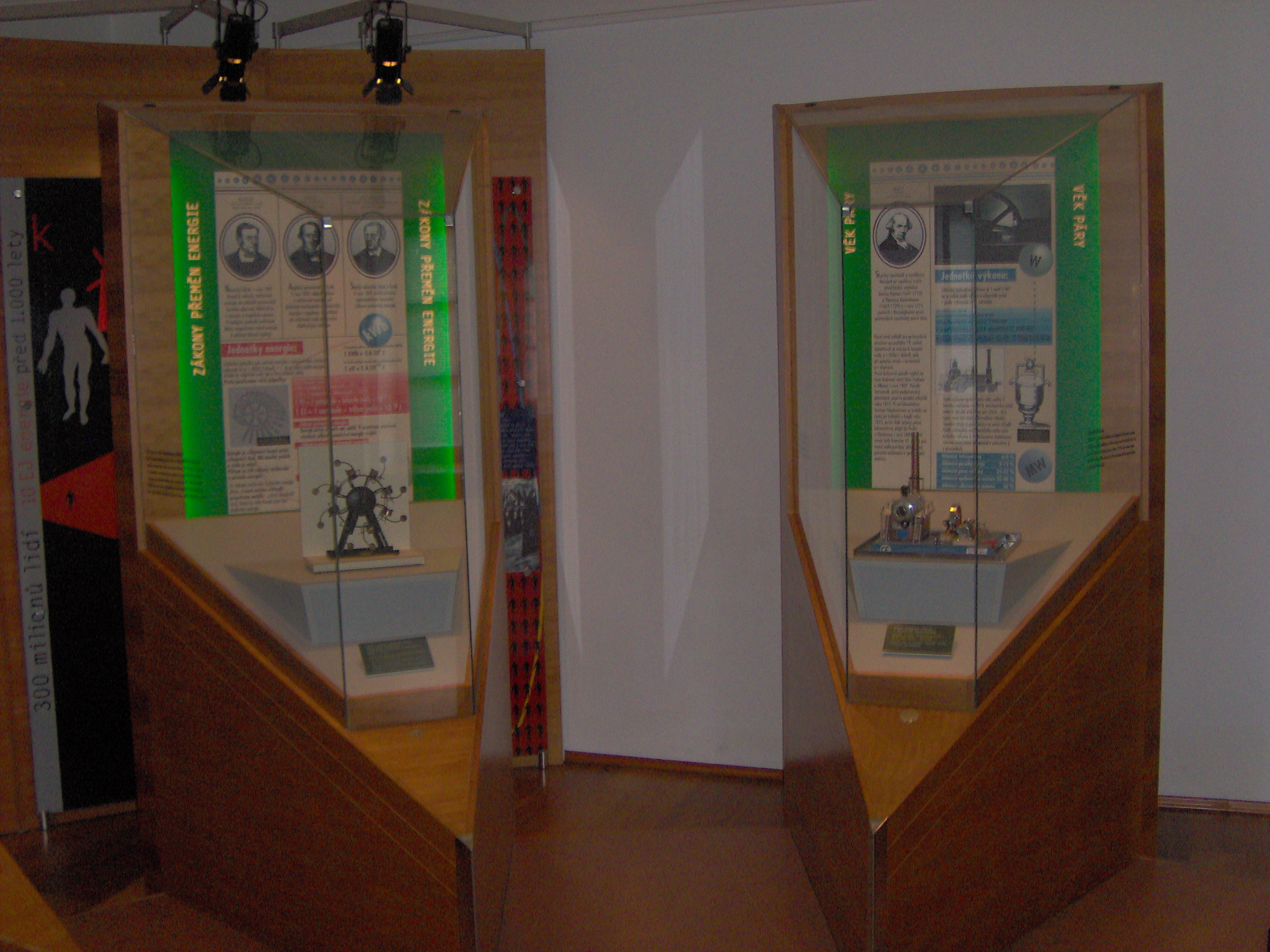 Clearing-house of Temelín Nuclear Power Station. Česky: Informačním centrum Jaderné elektrárny Temelín.